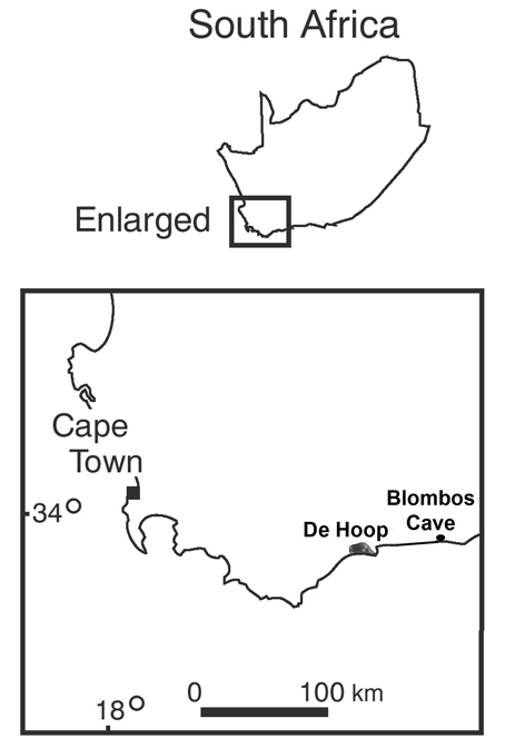 Location map of Blombos cave.